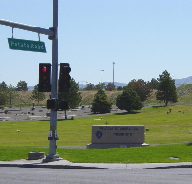 Photo taken by Daniel Mayer and released under terms of the GNU FDL. Category:Images of Nevada